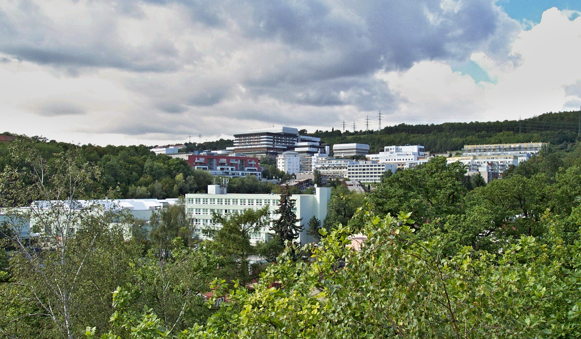 View from the Skalka hill in Prague-Smíchov to Nemocnice na Homolce hospital